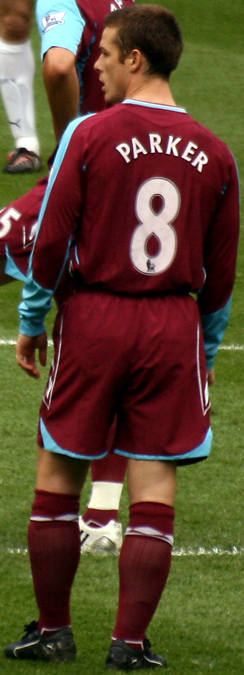 Scott Parker. Image cropped from original at flickr.